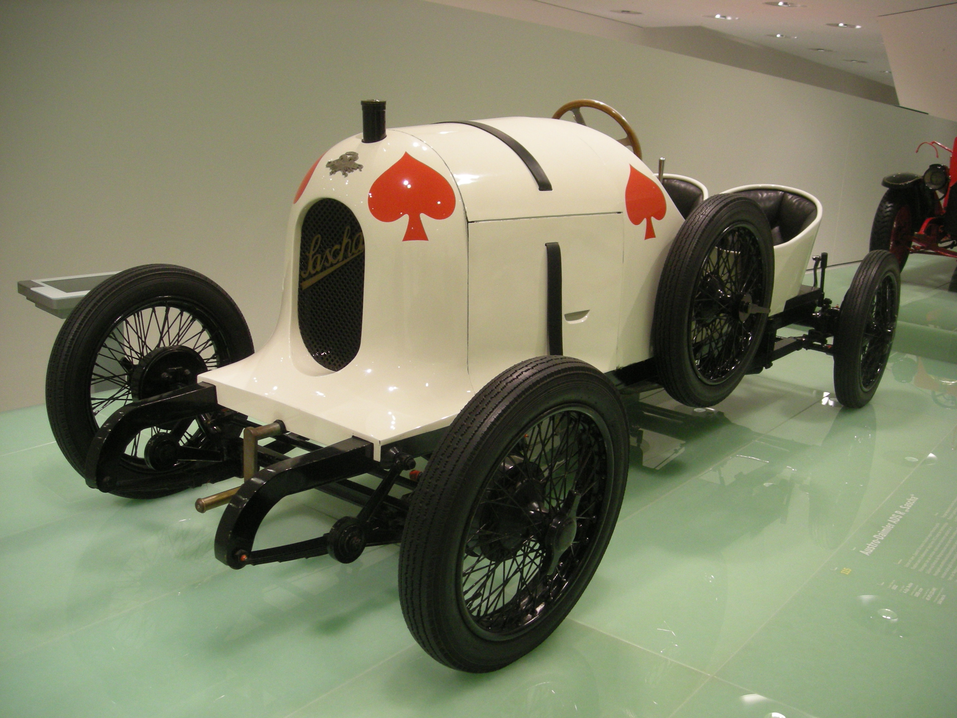 A 1922 Austro-Daimler ADS R Sascha inside the Porsche Museum in Stuttgart, Baden-Württemberg (Germany).